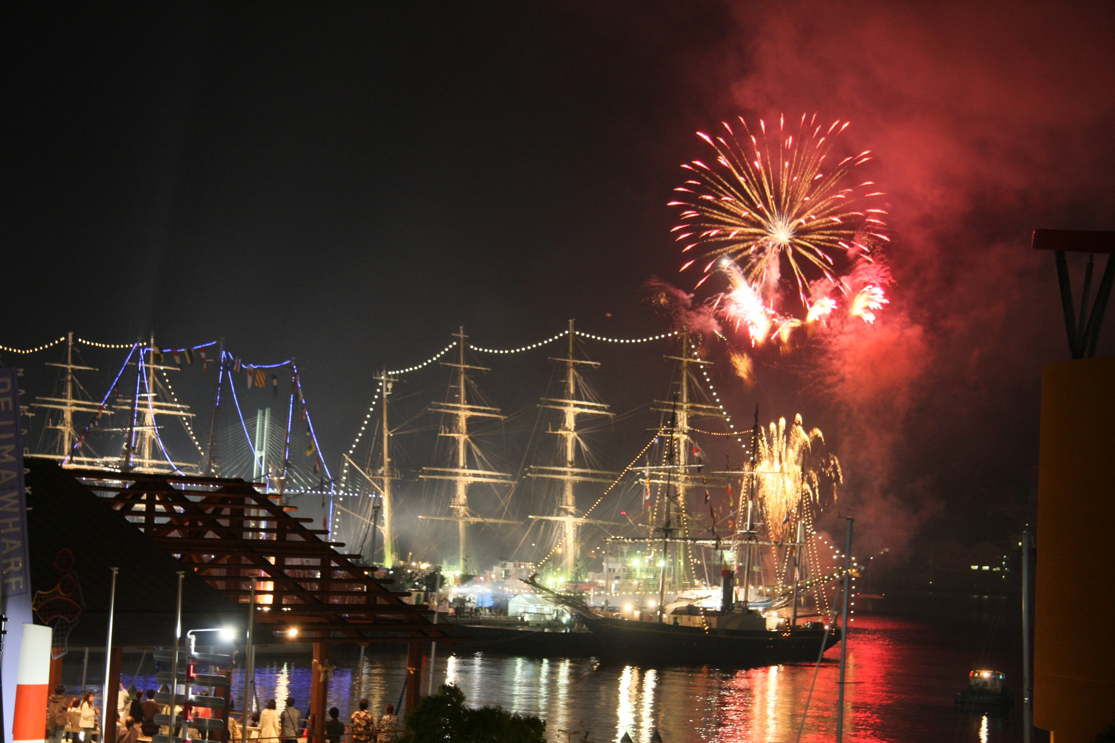 This is a picture which I took in Nagasaki sailing ship festival.